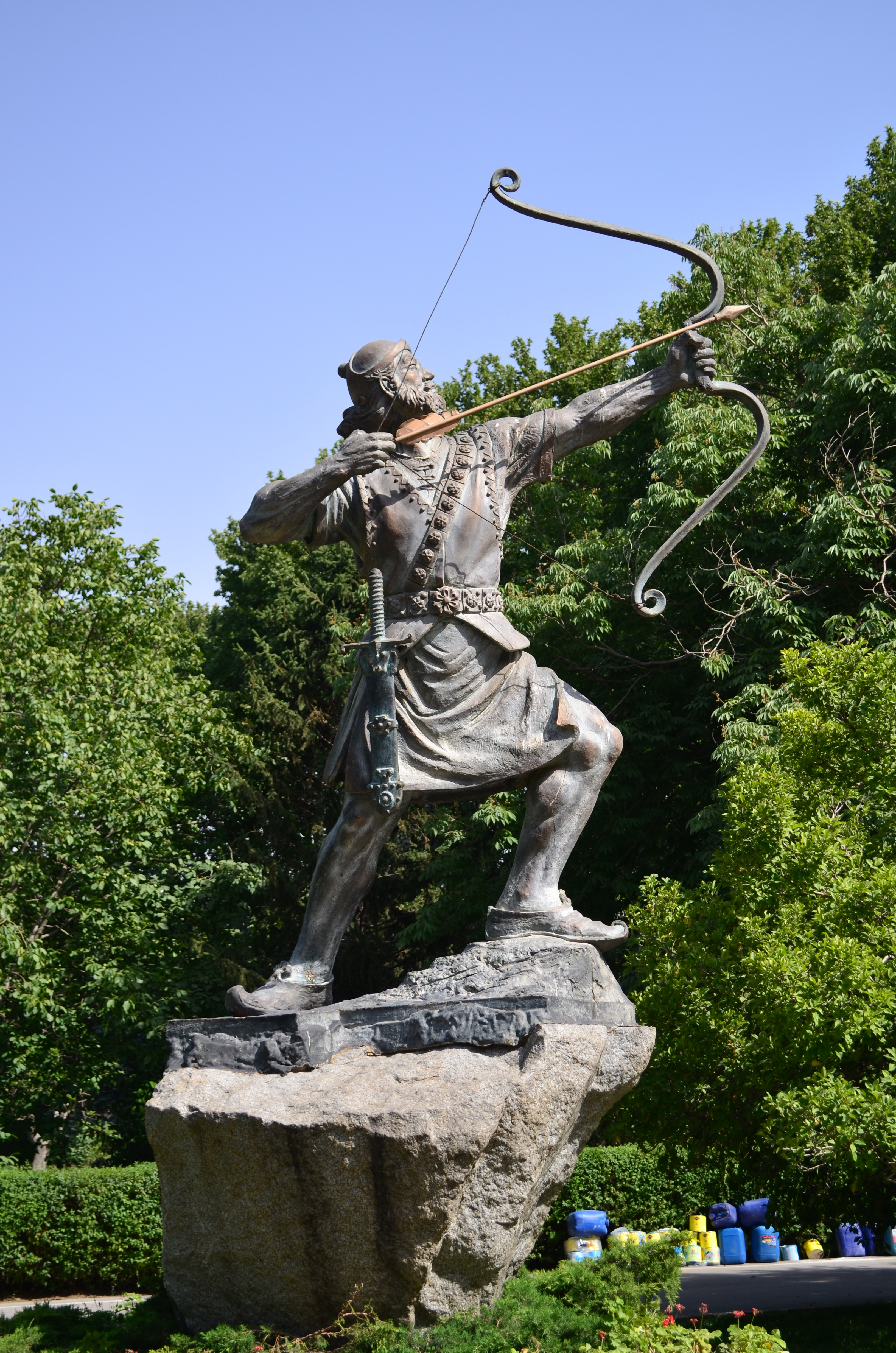 The Sa'dabad Palace royal complex — in Tehran, Iran.